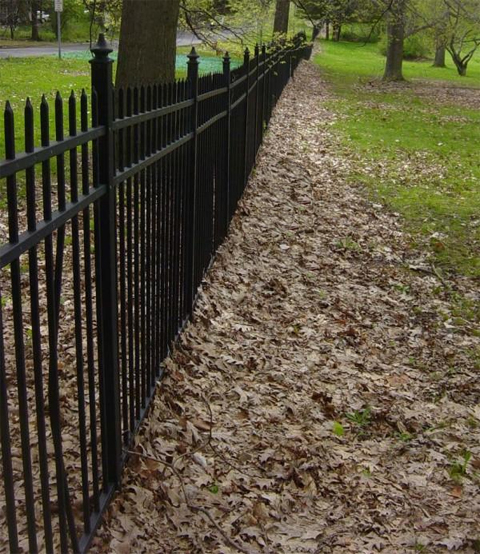 James Pass Arboretum - Autumn